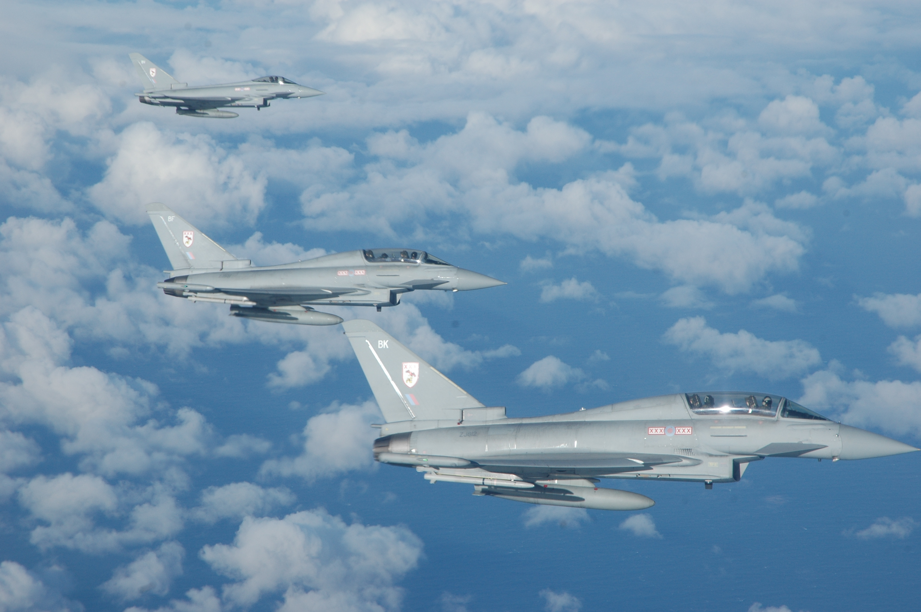 An RAF 29 Squadron "three ship" flight of Typhoons waiting to take on fuel from 216 Sqaudron KC1 in March 2008.